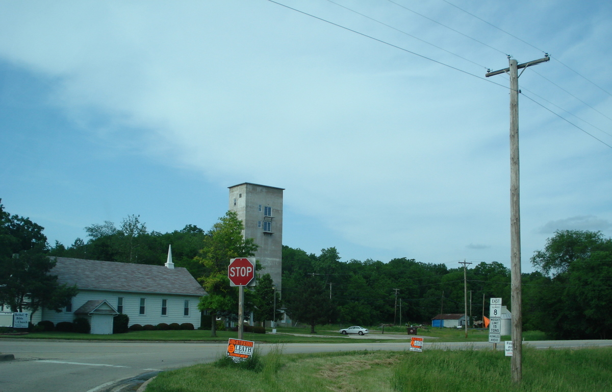 Edwards, Peoria County, Illinois: north on N. Taylor Road north turning east onto W. Southport Road (Illinois Route 8 east). Bethel Bible Church on the northeast corner; behind the church, an old grain elevator tower on the south side of railroad tracks. Along the intersection, "going out of business" signs for the Leath Furniture chain. Original caption: “This interesting building is along the railroad tracks. No idea what it's used for.”